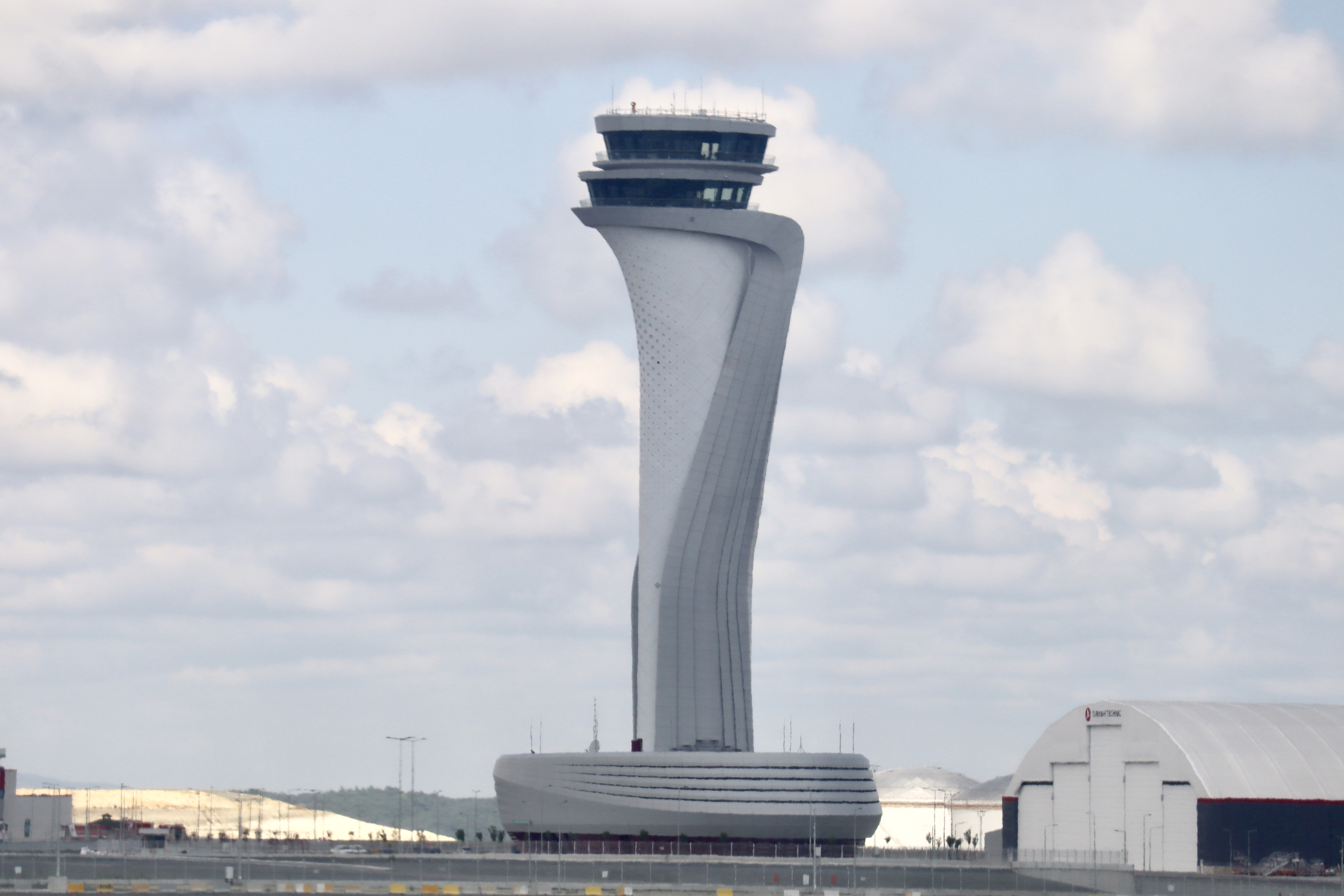 Istanbul Airport's tulip-shaped atc tower